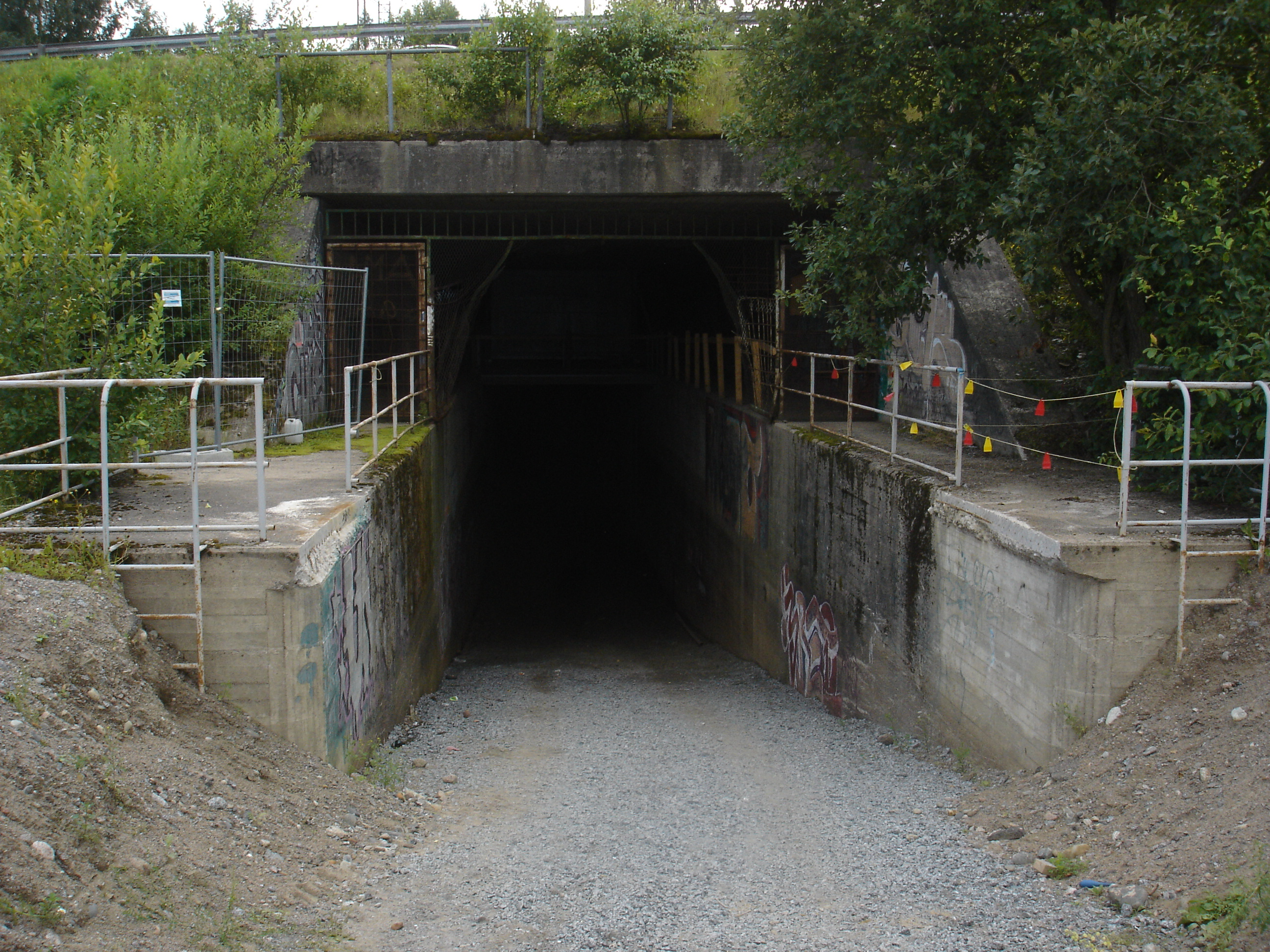 The old timber rafting tunnel in Pispala, Tampere. Näsijärvi side.